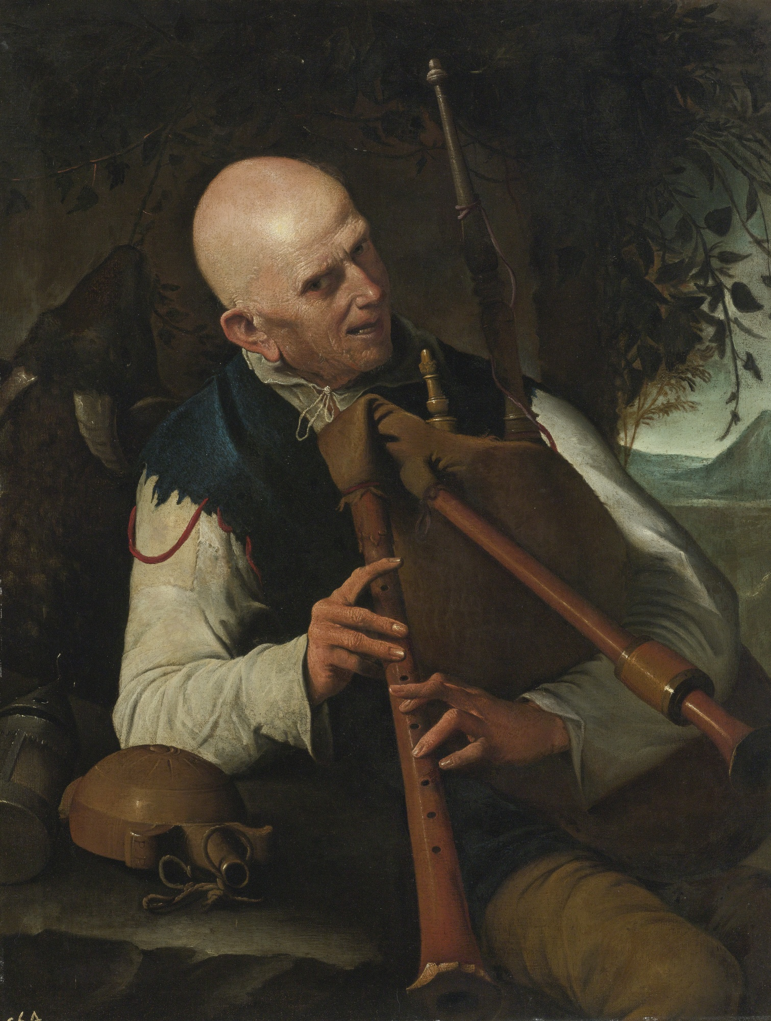 A Bagpiper by Pietro Paolini, oil on canvas, 120.7 by 93 cm.